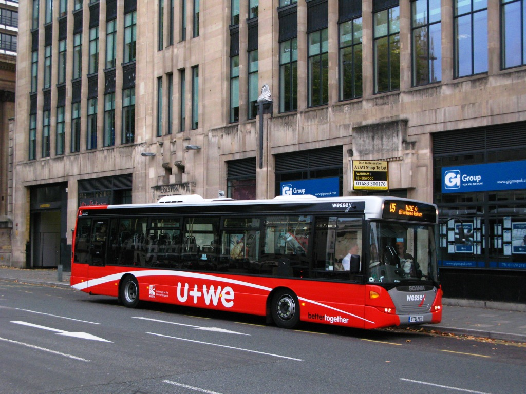 Wessex's latest Scania - YT61FEO - passes through the city centre in Bristol. It carries UWE (University of the West of England) logos as part of the Wessex Red fleet which provides links between the college's campuses.